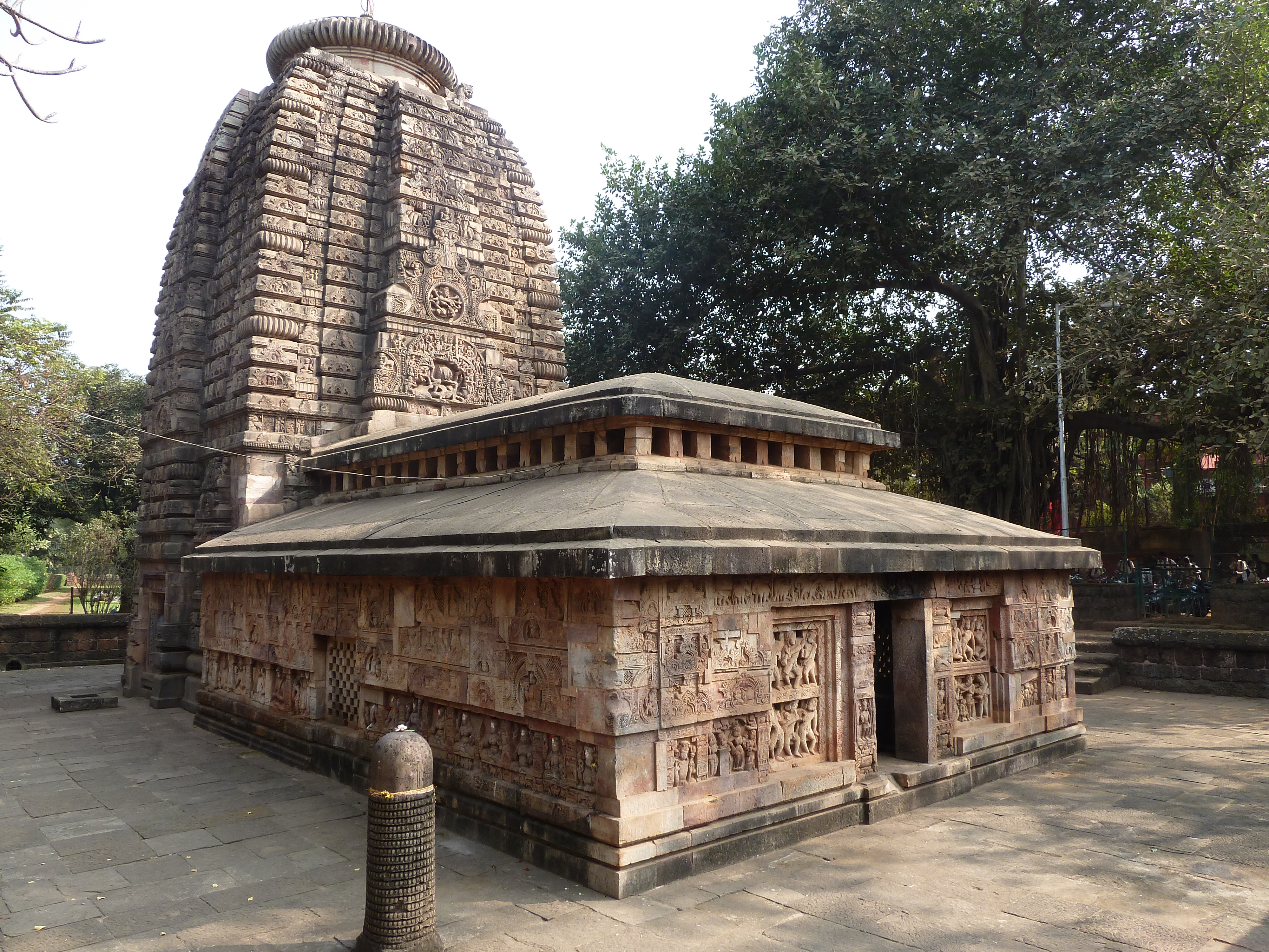 Parasurameswar temple in Bhubaneswar, India